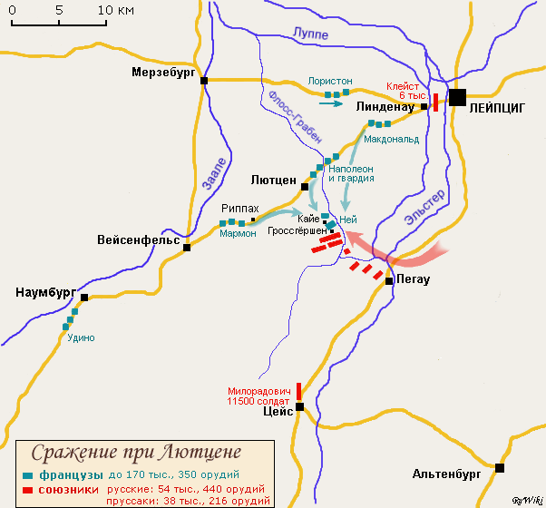 Map of the Battle of Lutzen (1813) in russian. Napoleonic war in Saxony in 1813.